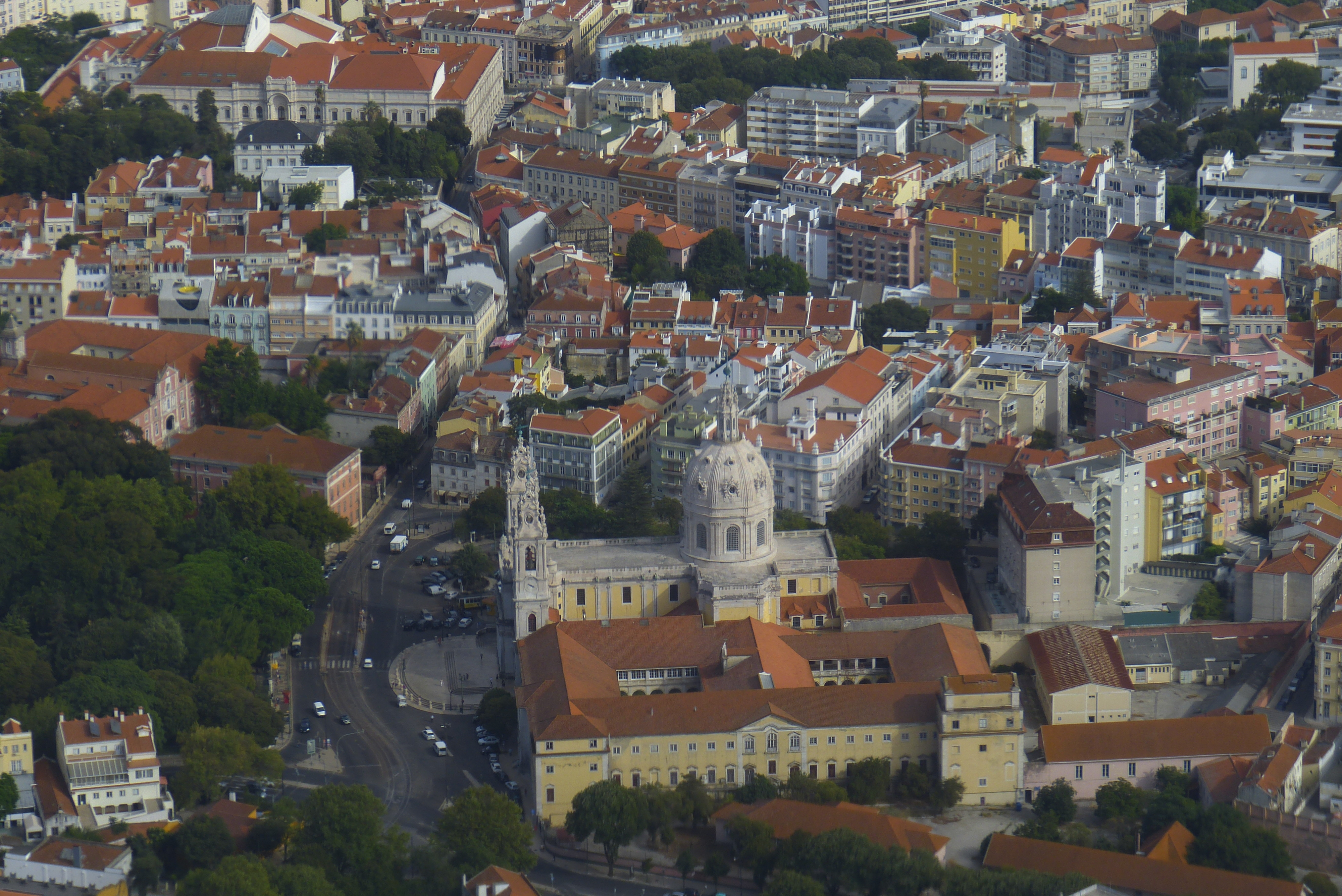 Aerial photograph of Lisbon showing the Basílica da Estrela and the Convento do Santíssimo Coração de Jesus.